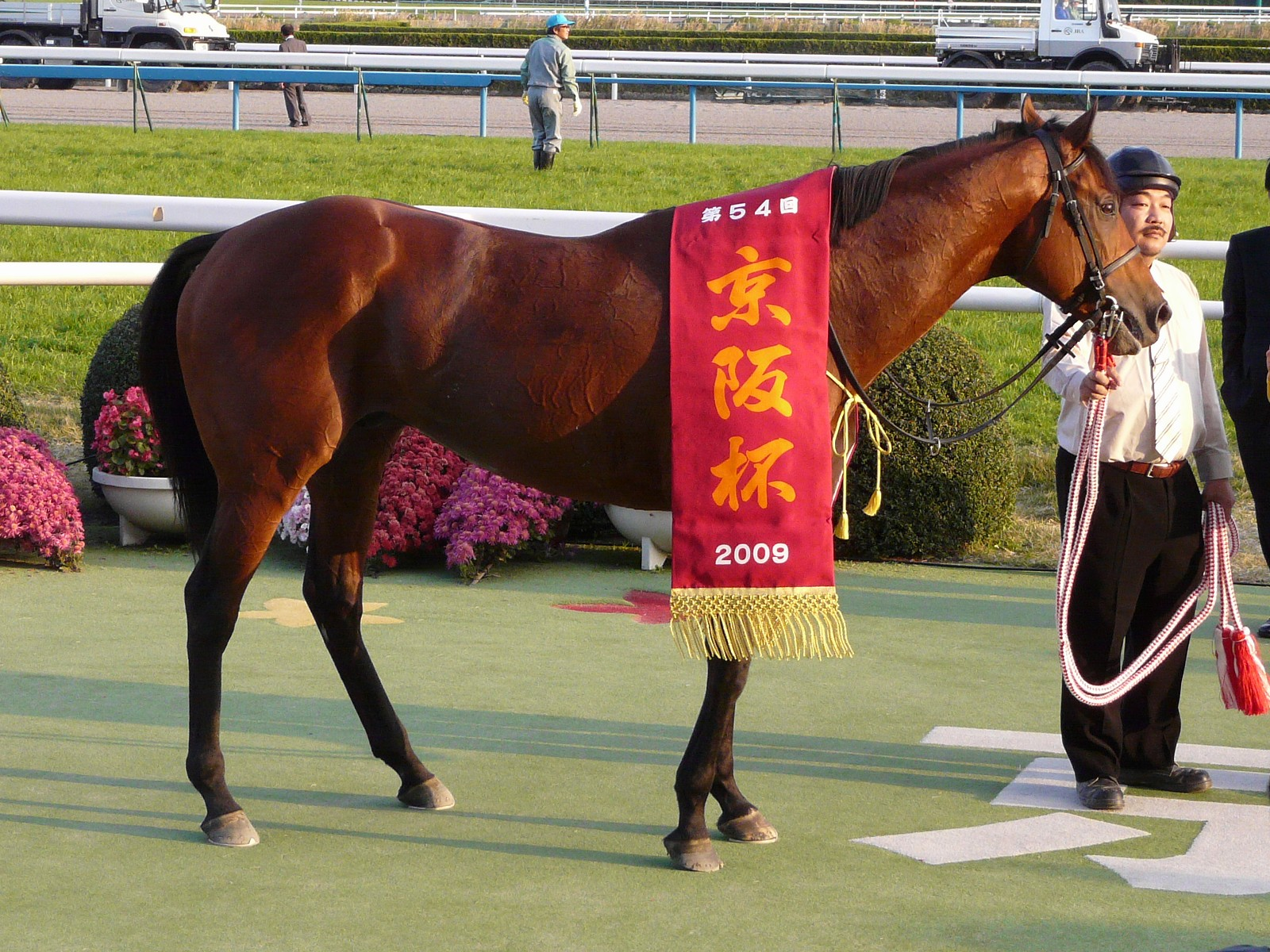 Premium-Box20091128